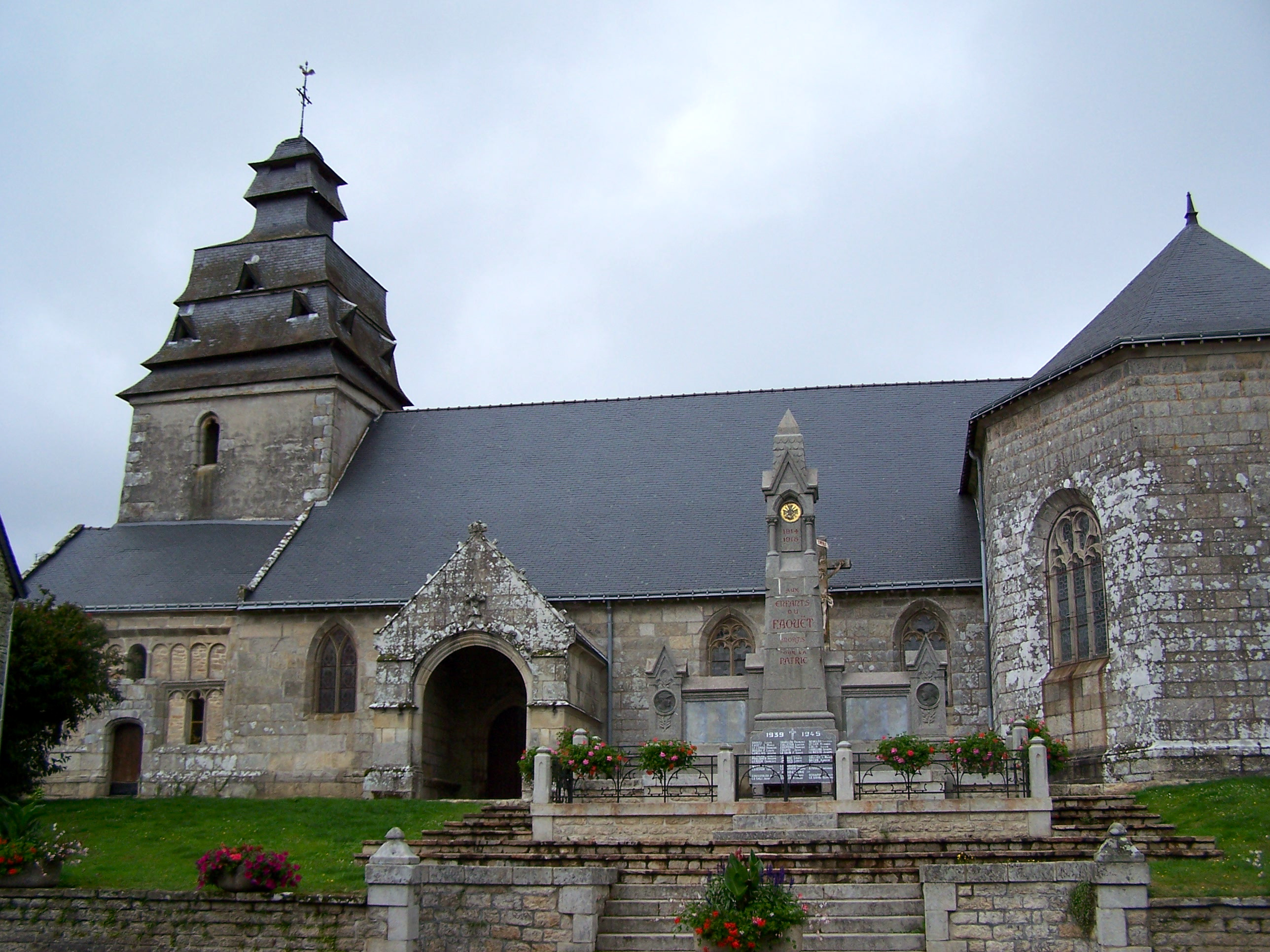 View of the church Notre-Dame-de-l'Assomption at Le Faouët, France